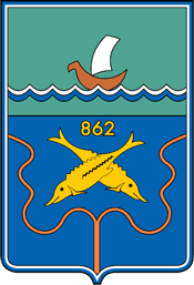 Belozyorsk (Vologda oblast), coat of arms (1970)